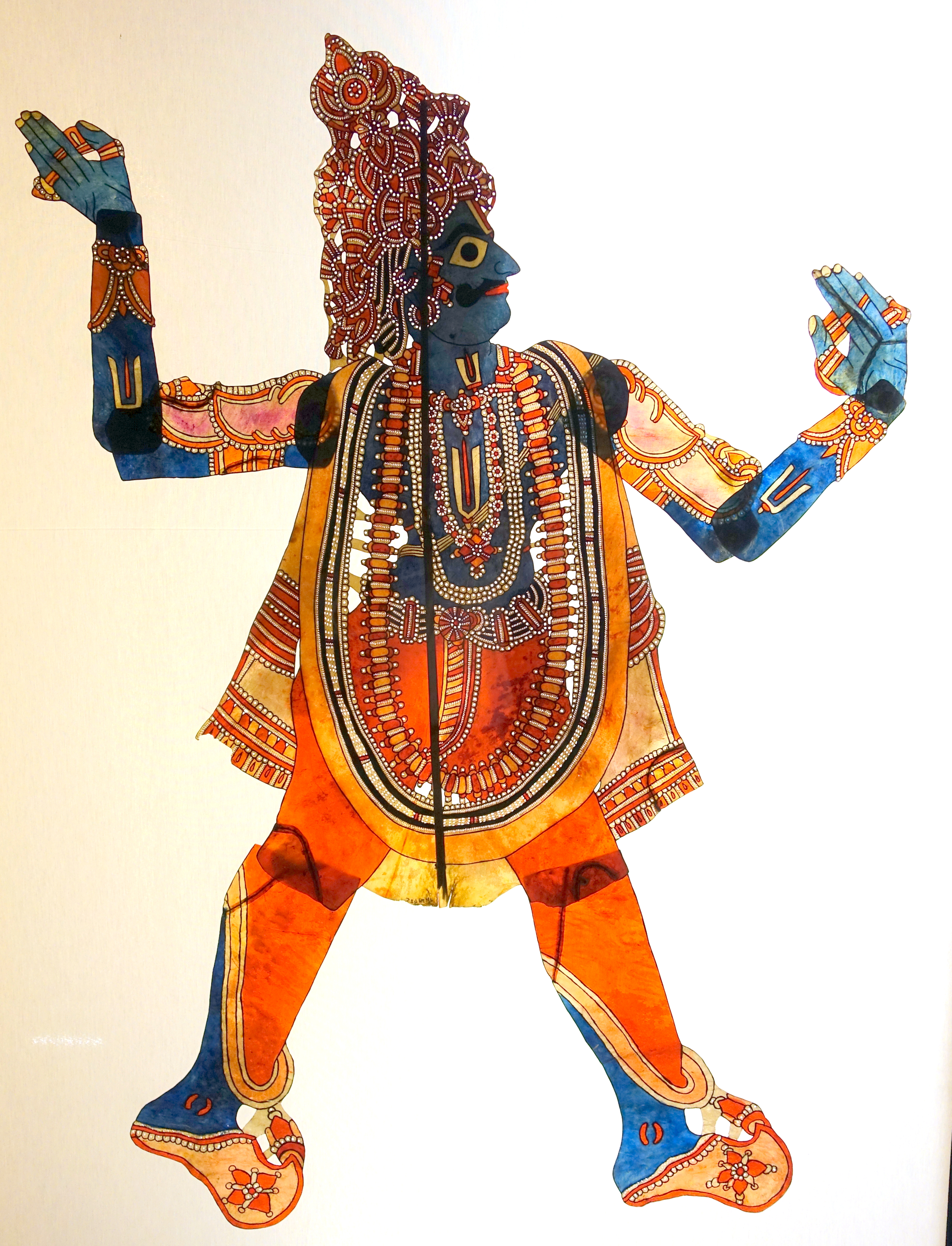 Exhibit in the Museu do Oriente - Lisbon, Portugal. This work is old enough so that it is in the public domain.